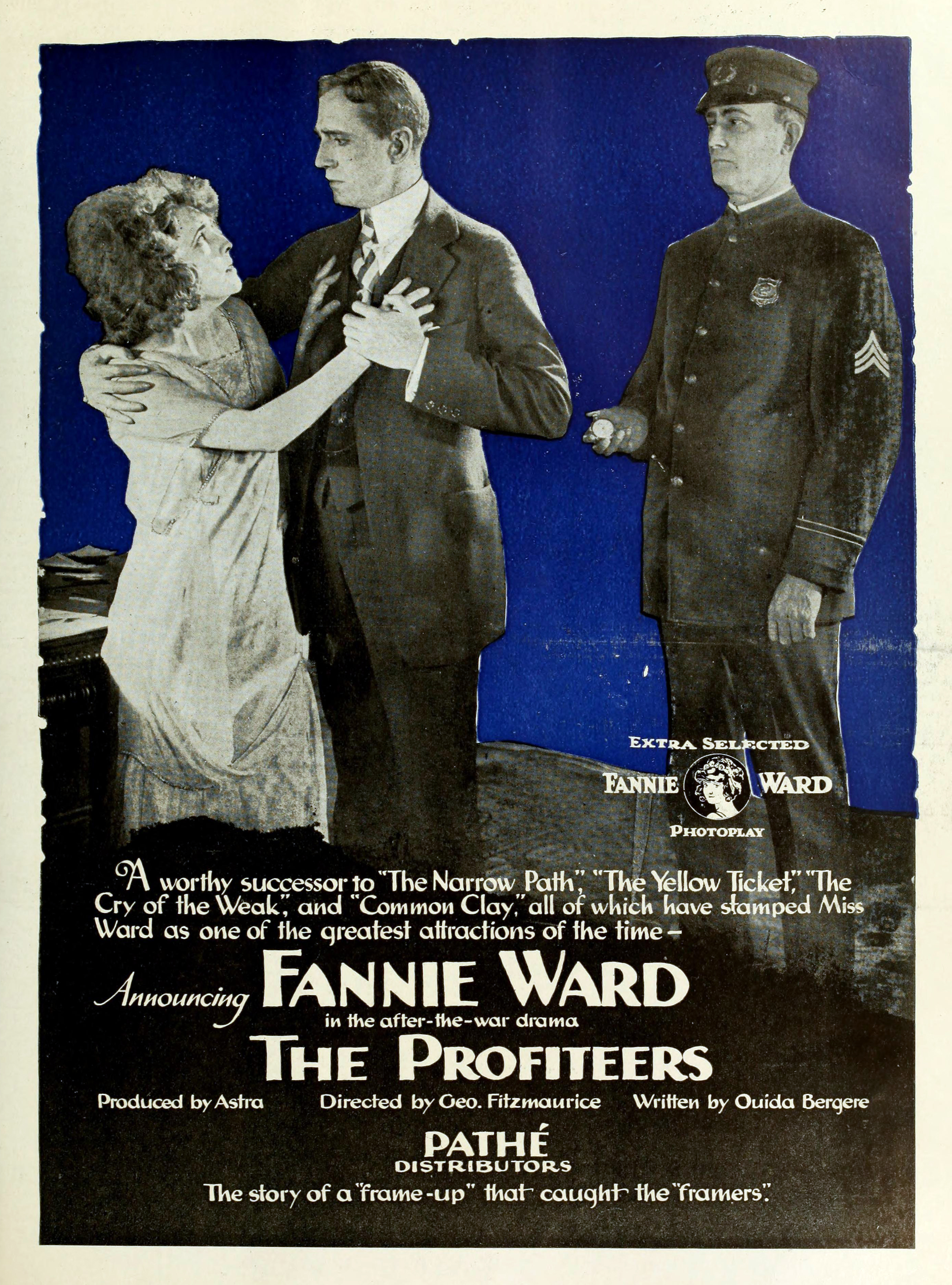 Advertisement for The Profiteers in Moving Picture World, June 1919.